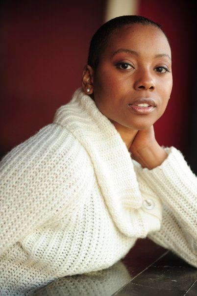 Erica Ash